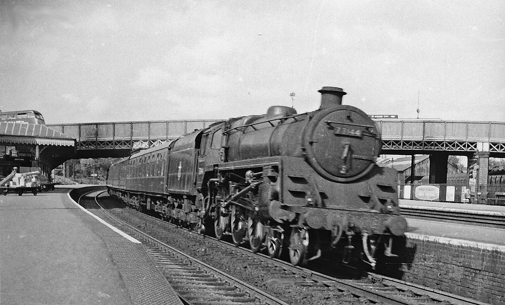 St Albans City Station, with an Up express. View northward, towards Bedford, Leicester etc., ex-Midland main line London St Pancras - Leicester and the North. The train, running through on the Up Fast, is the 12.12 Derby to St Pancras, headed by BR Standard 5MT 4-6-0 (with Caprotti valve-gear) No. 73144.